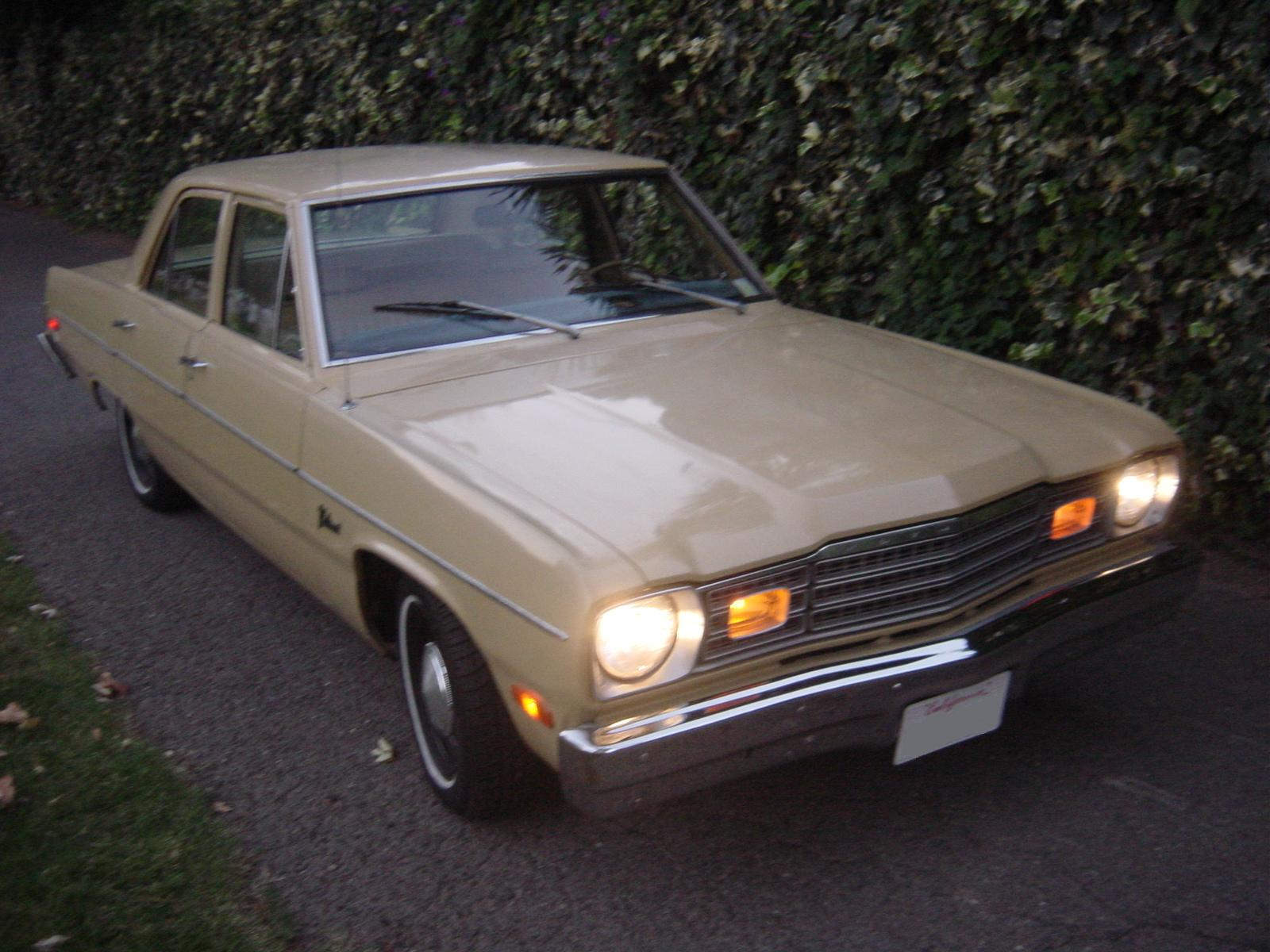 1974 Plymouth Valiant Sedan